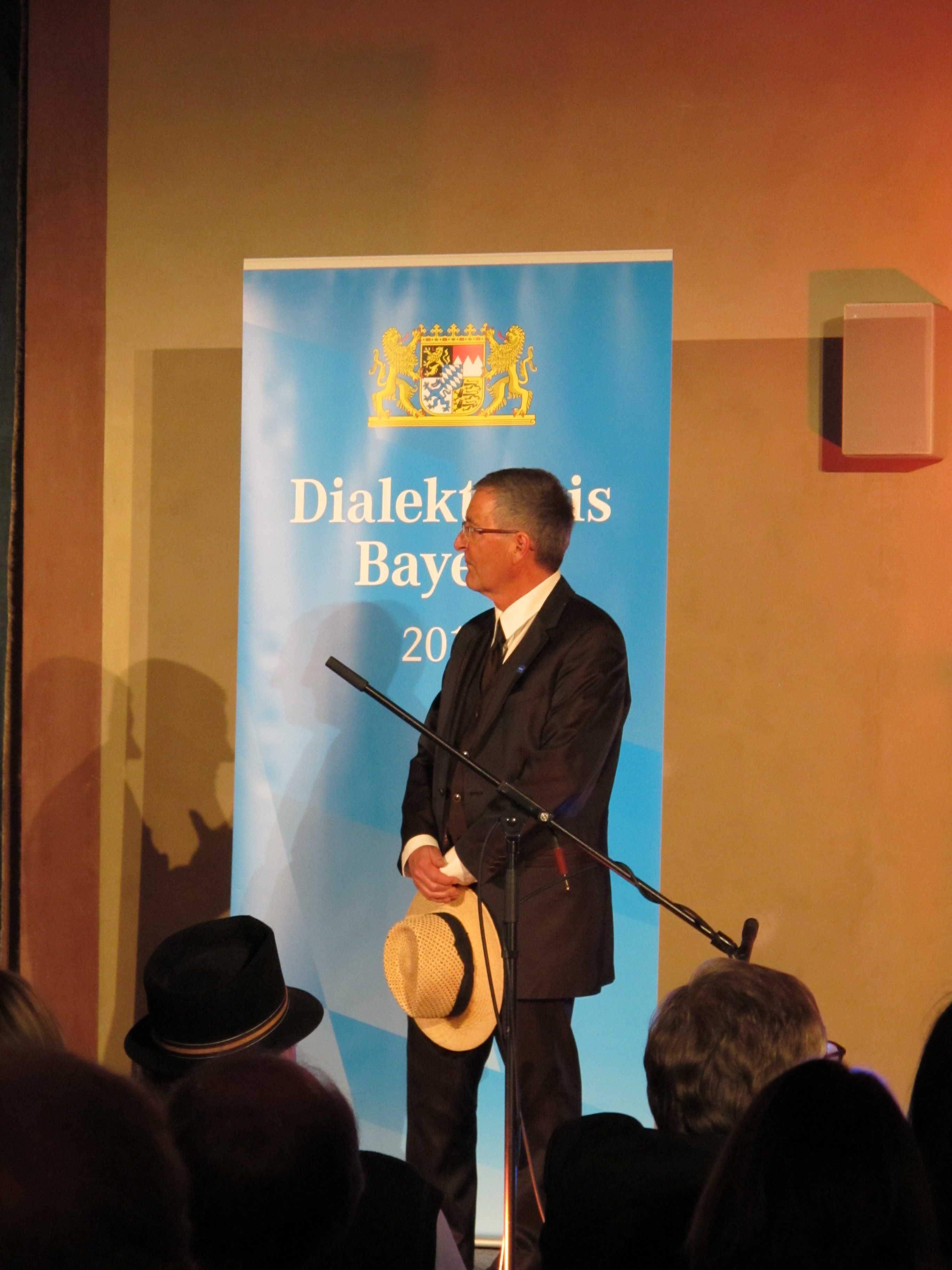 Leo Hiemer at the award ceremony for the Bayerischer Dialektpreises 2017 in the Kaisersaal at Münchener Residenz